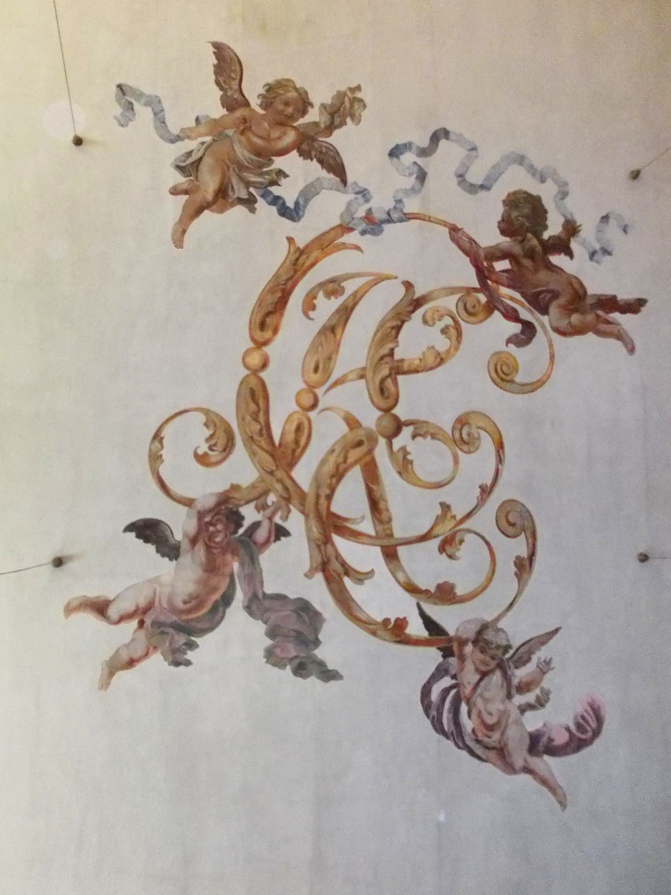 St. Nicholas' Church in Pretzsch (Bad Schmiedeberg, Wittenberg district, Saxony-Anhalt)